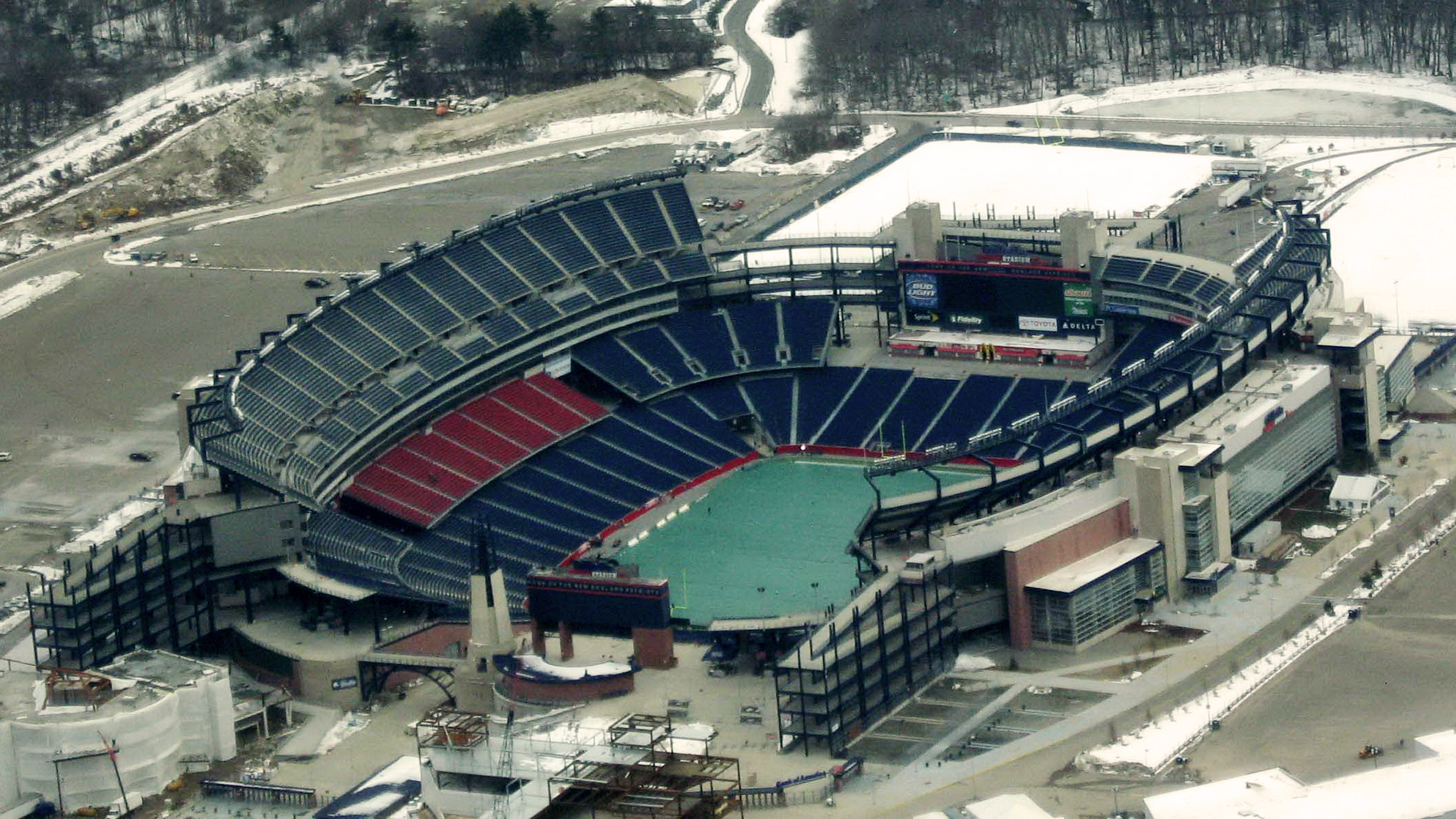 Ariel picture of Gillette Stadium